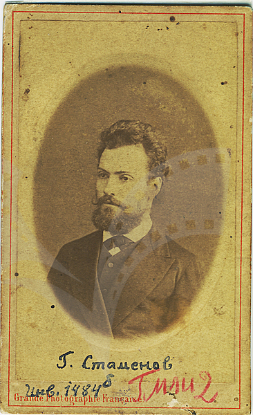 Georgi Stamenov Young